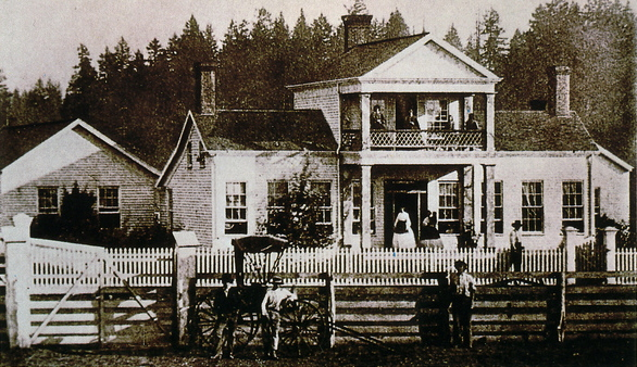 Sam Brown House taken in the 1800s.